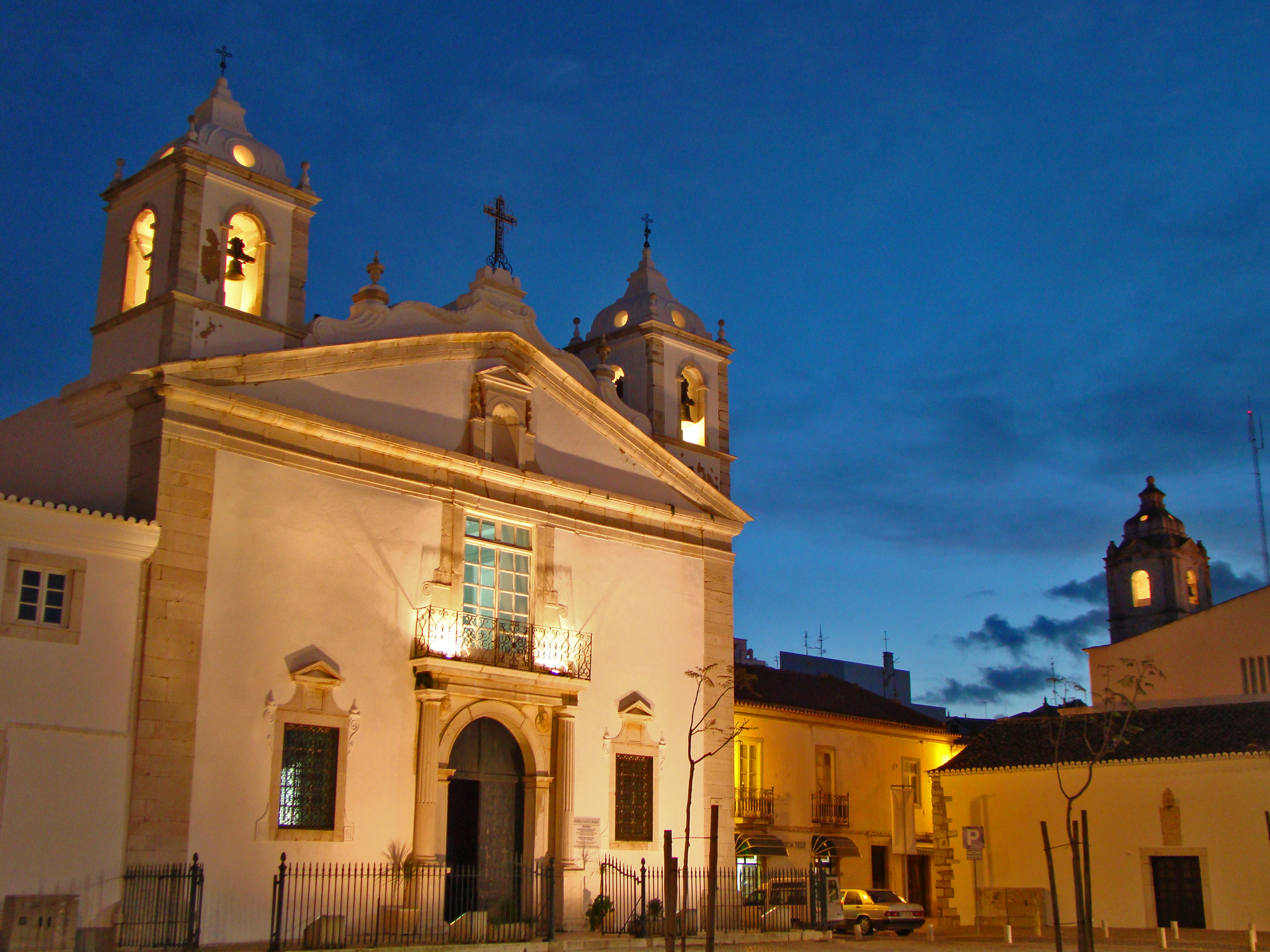 Santa Maria Church